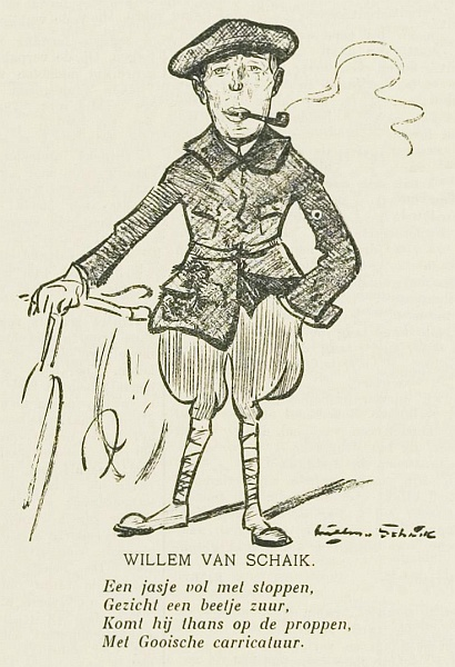 Zelfportret, caricatuur